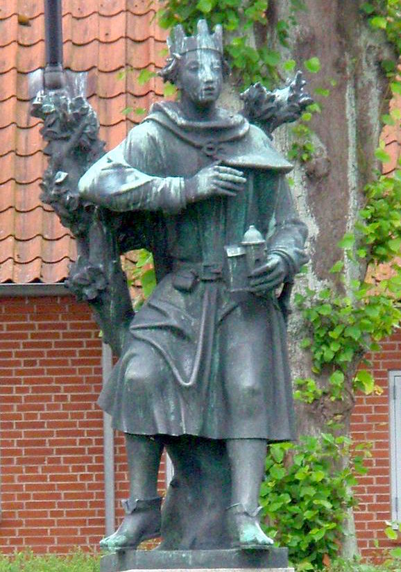 Statue of Svend Grathe, the Danish King who founded Nordborg in about 1157, City centre Nordborg